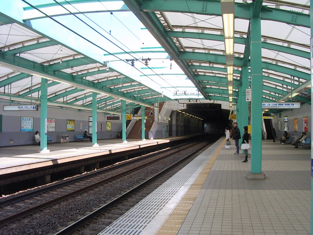 Kōzunomori Station on Keisei Main Line. This station is located at Narita, Chiba.